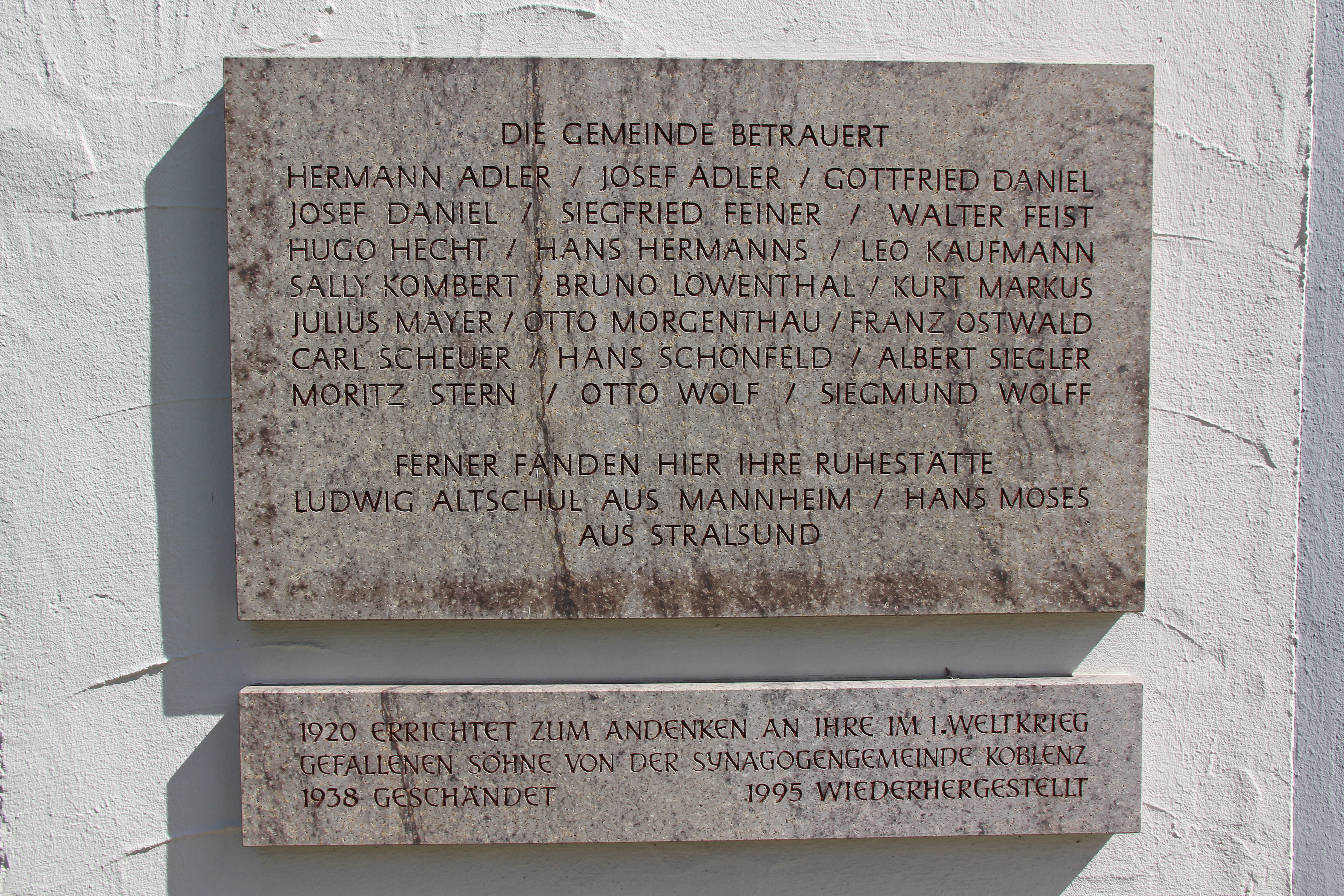 Jewish cemetery in Koblenz